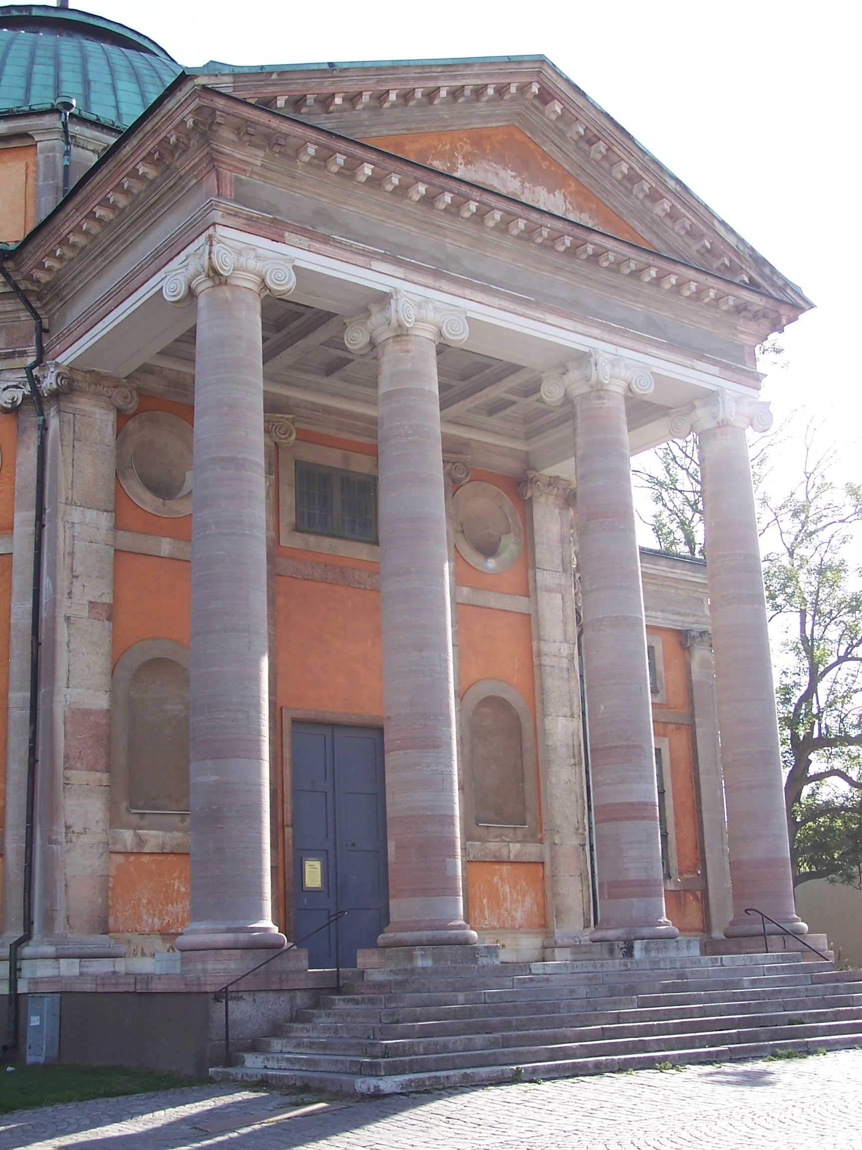 Collonade of Trefaldighetskyrkan, Karlskrona.